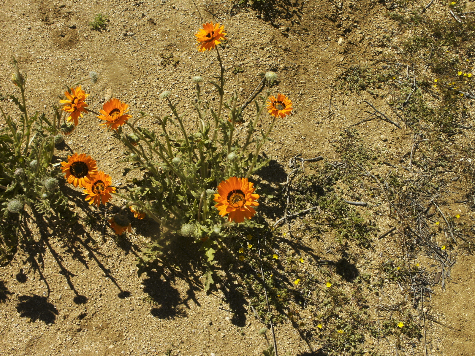 Namaqualand Gousblom, 'Arctotis fastuosa (Jacquin), Namaqualand, Goegap Nature Reserve, Northern Cape, South Africa